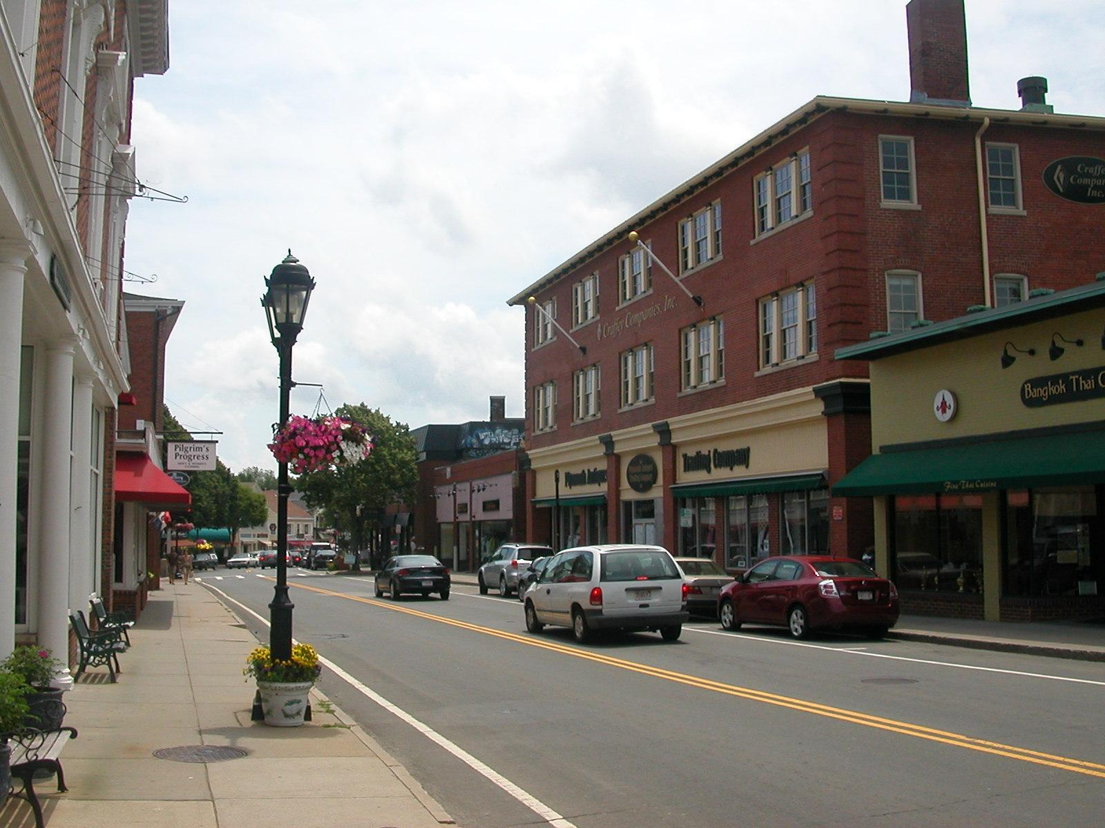 Looking down Court Street toward Town Brook in Plymouth, MA